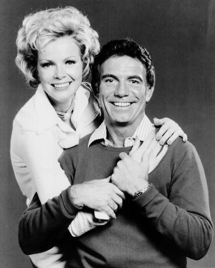 Photo of Tony Franciosa as Matt Helm and Laraine Stephens as Claire Kronski, his assistant, from the short-lived television program Matt Helm.